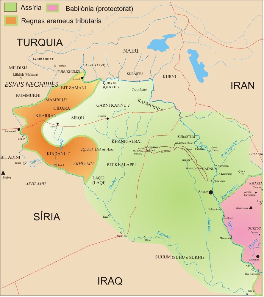 Assyria under Tukultu-Ninurta II